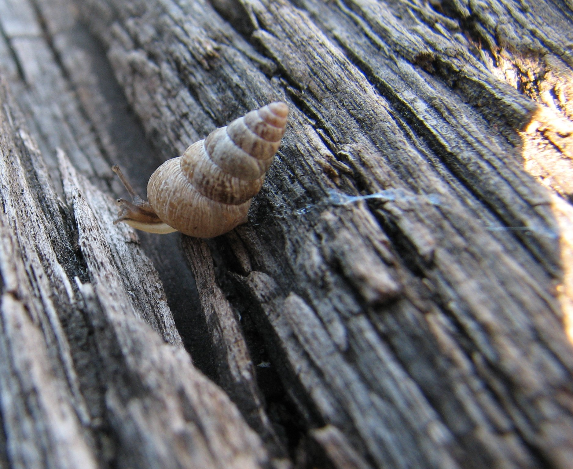 looking like an escaped sea creature, this snail would have to have lived a long time to have made it all the way from the coast (200 km East of here) - possibly a Cochlicella barbara (Linnaeus). Found in Lithgow, Australia. I agree with the identification on this. Invertzoo (talk) 22:06, 11 November 2011 (UTC)